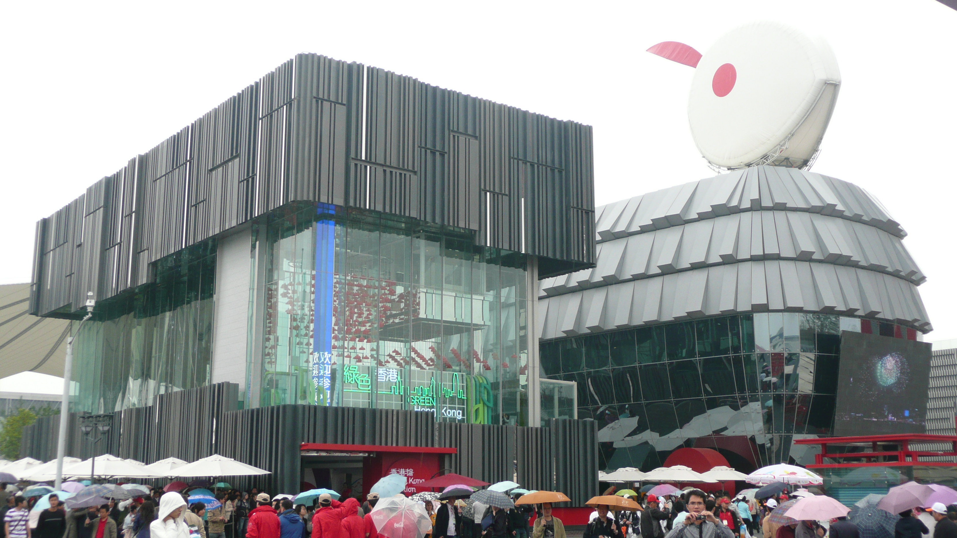 Hong Kong Pavilion and Macao Pavilion, Expo 2010 Shanghai